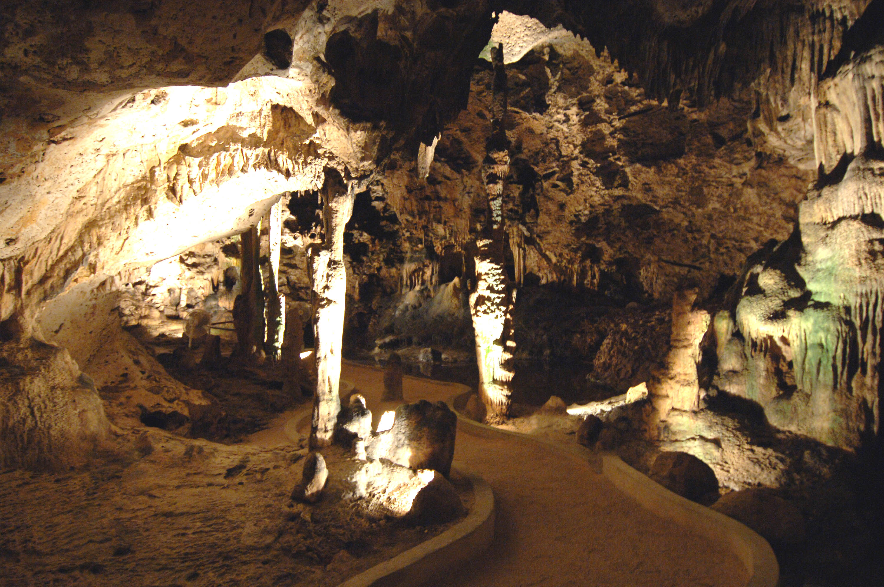 SEA CAVERNS SET IN A BLUFF ON THE NORTH SHORE AND FREQUENTED BY BATS. THESE CAVES ARE CLOE TO THE SURFACE AND UNLIKE MOST CAVES ARE EXTREMELY HUMID.